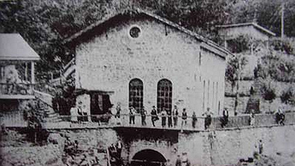 Ivan Hadzhiberov's Hydroelectric power plants, Bulgaria